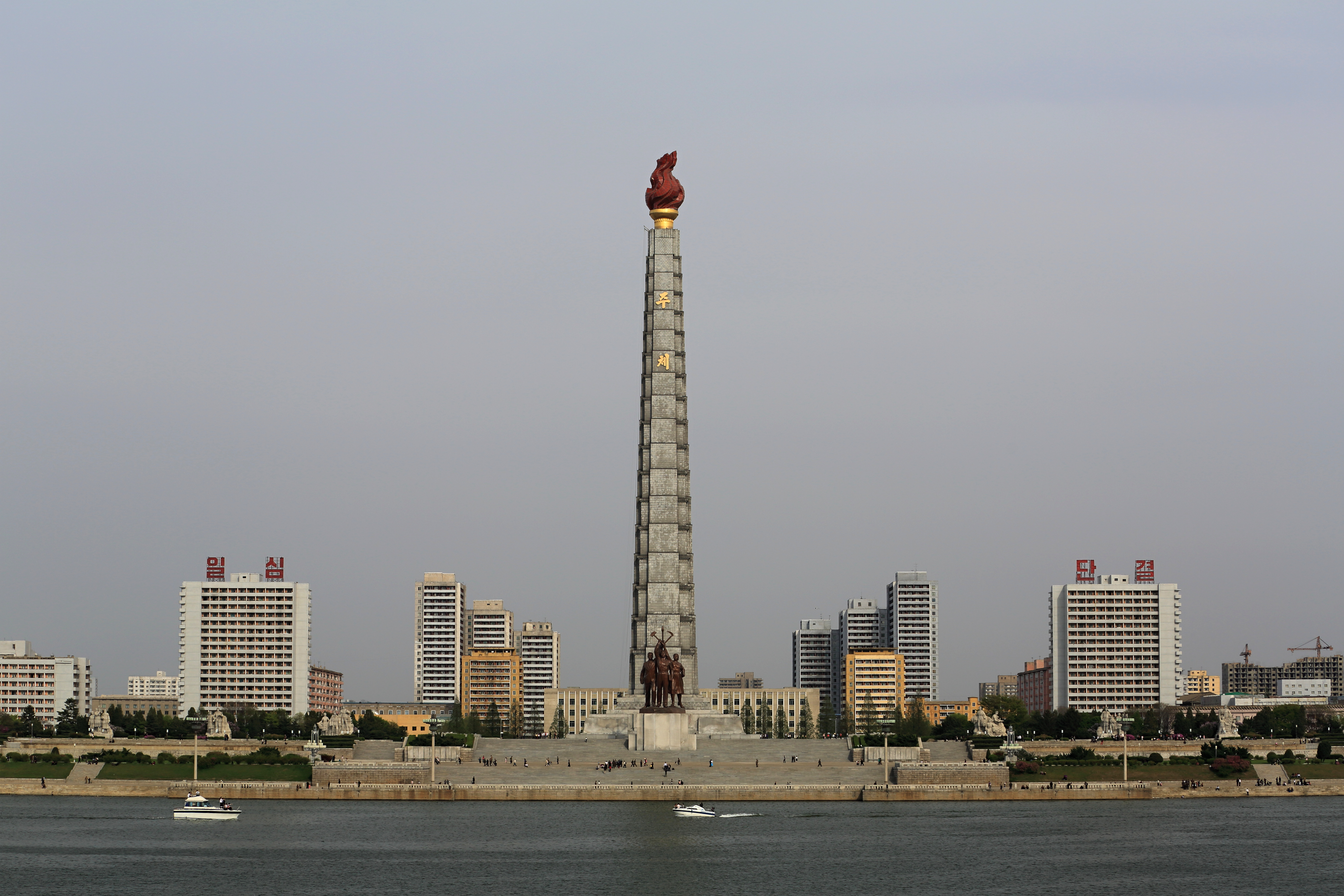 Tower of the Juche Idea